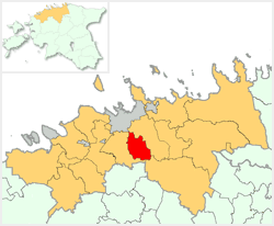 Location map of Kiili Commune, Estonia. This image was created by Senzeichi.